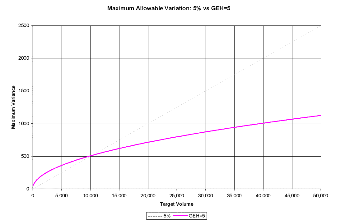 File originally uploaded by User:JWS as a PDF file (:Image:GEH Variation.pdf) and released into the public domain by said editor. Converted graph in PDF file to png and reuploading for use in GEH.